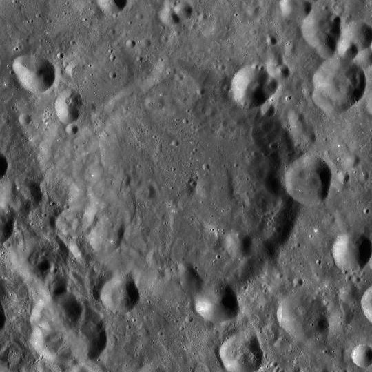 Kolhörster crater, on the far side of the moon. Mosaic of LRO WAC images.